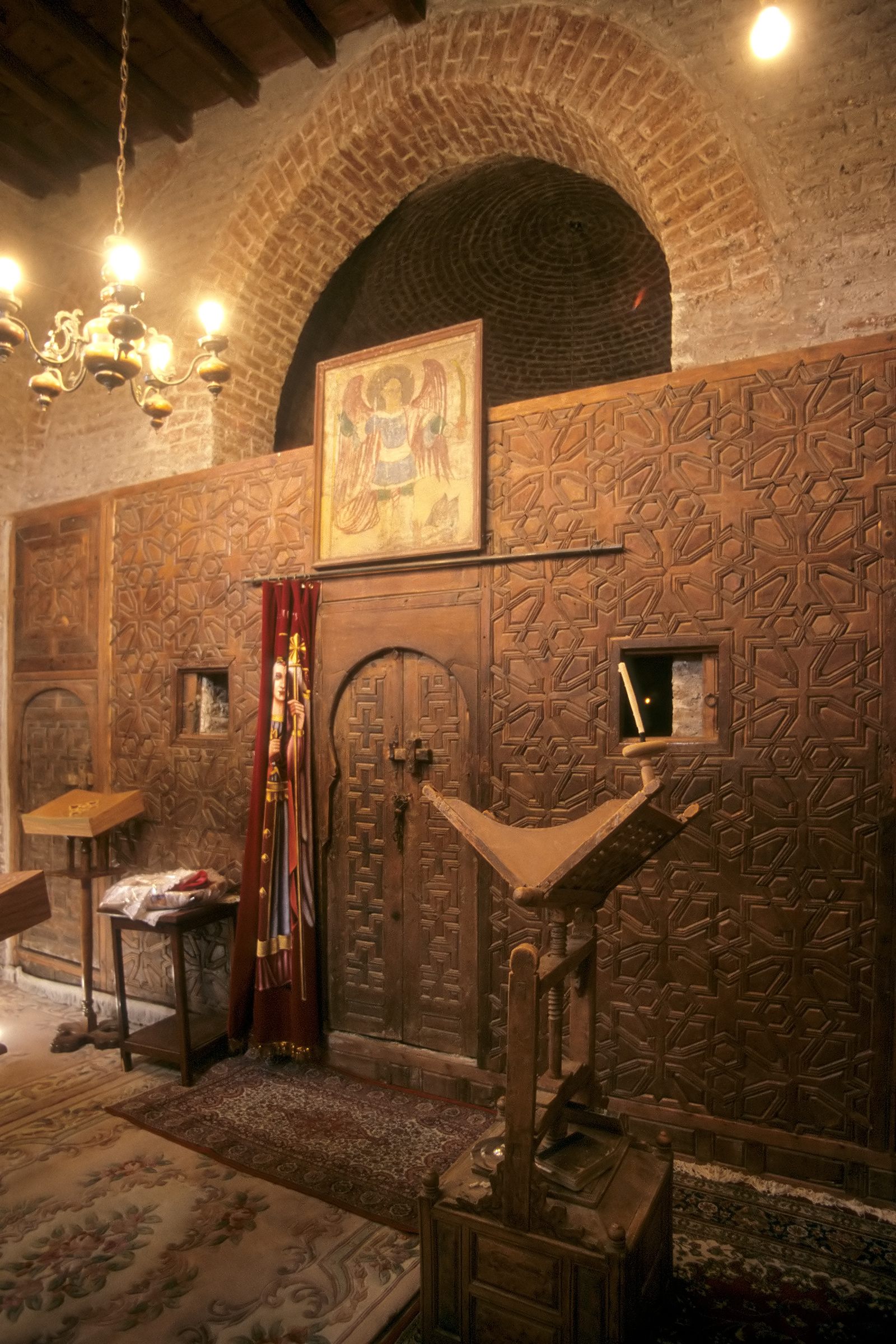 Screen of the Church of St. Michael in the keep, Monastery el-Muharraq, Egypt